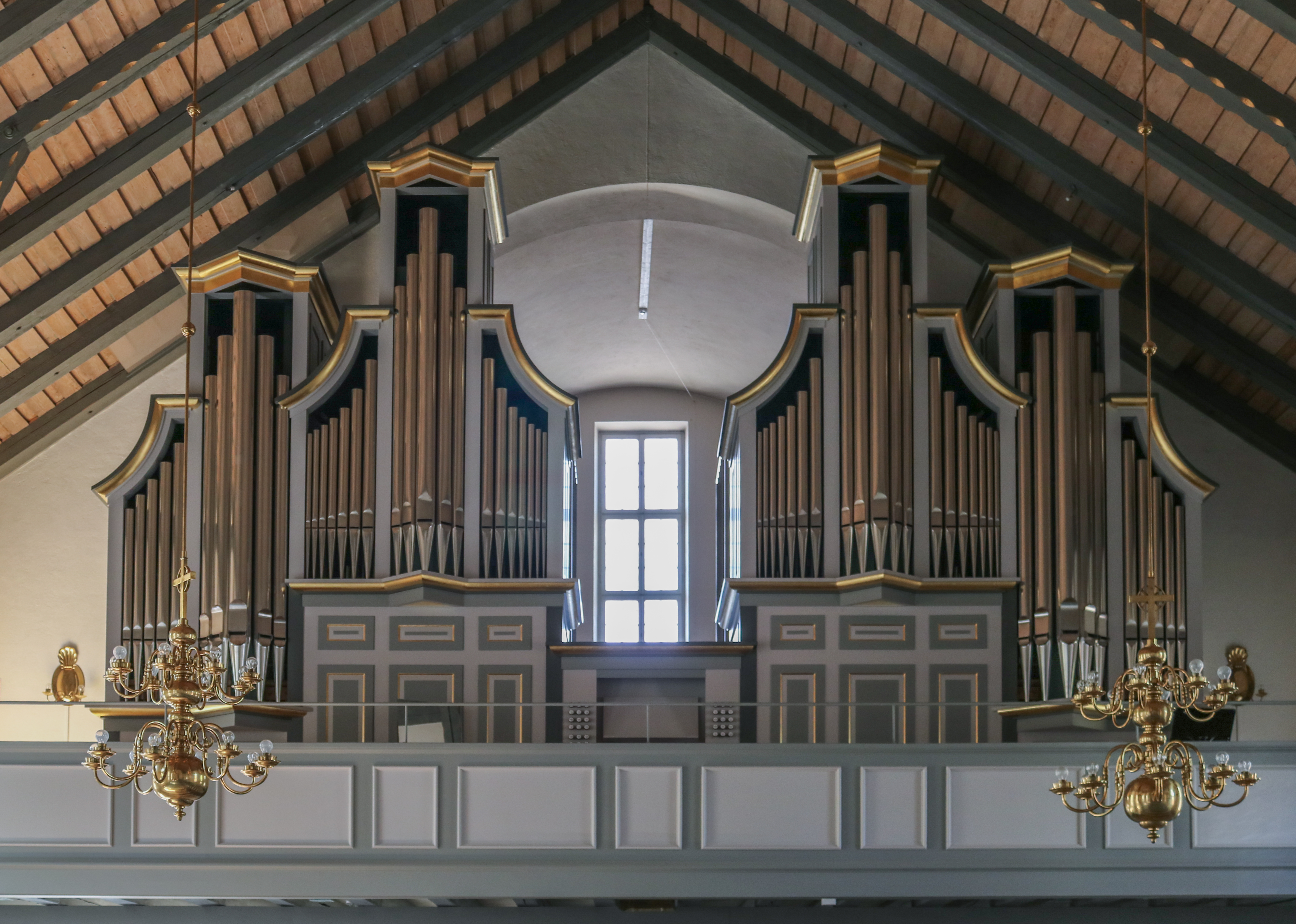 Nybro Church. The organ